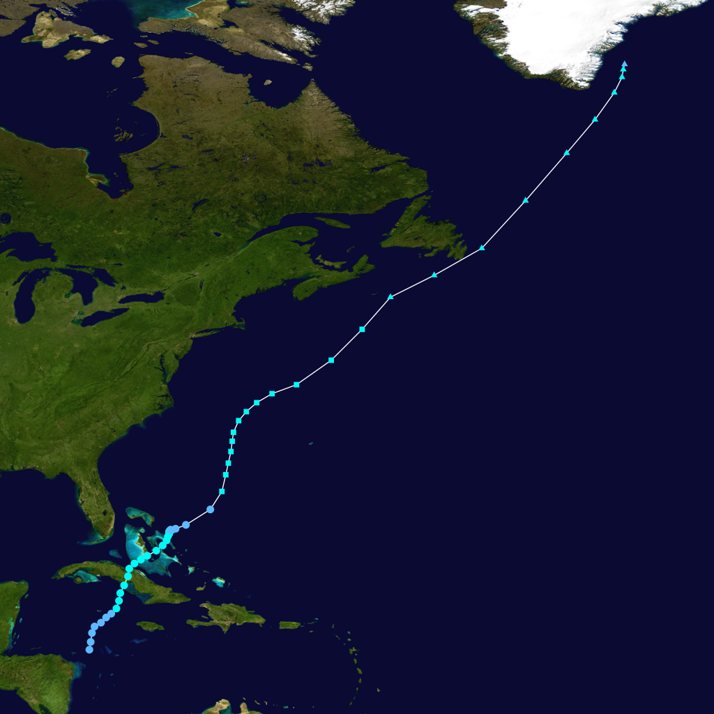 Tropical Storm Gilda (1973) track. Uses the color scheme from the Saffir-Simpson Hurricane Scale.